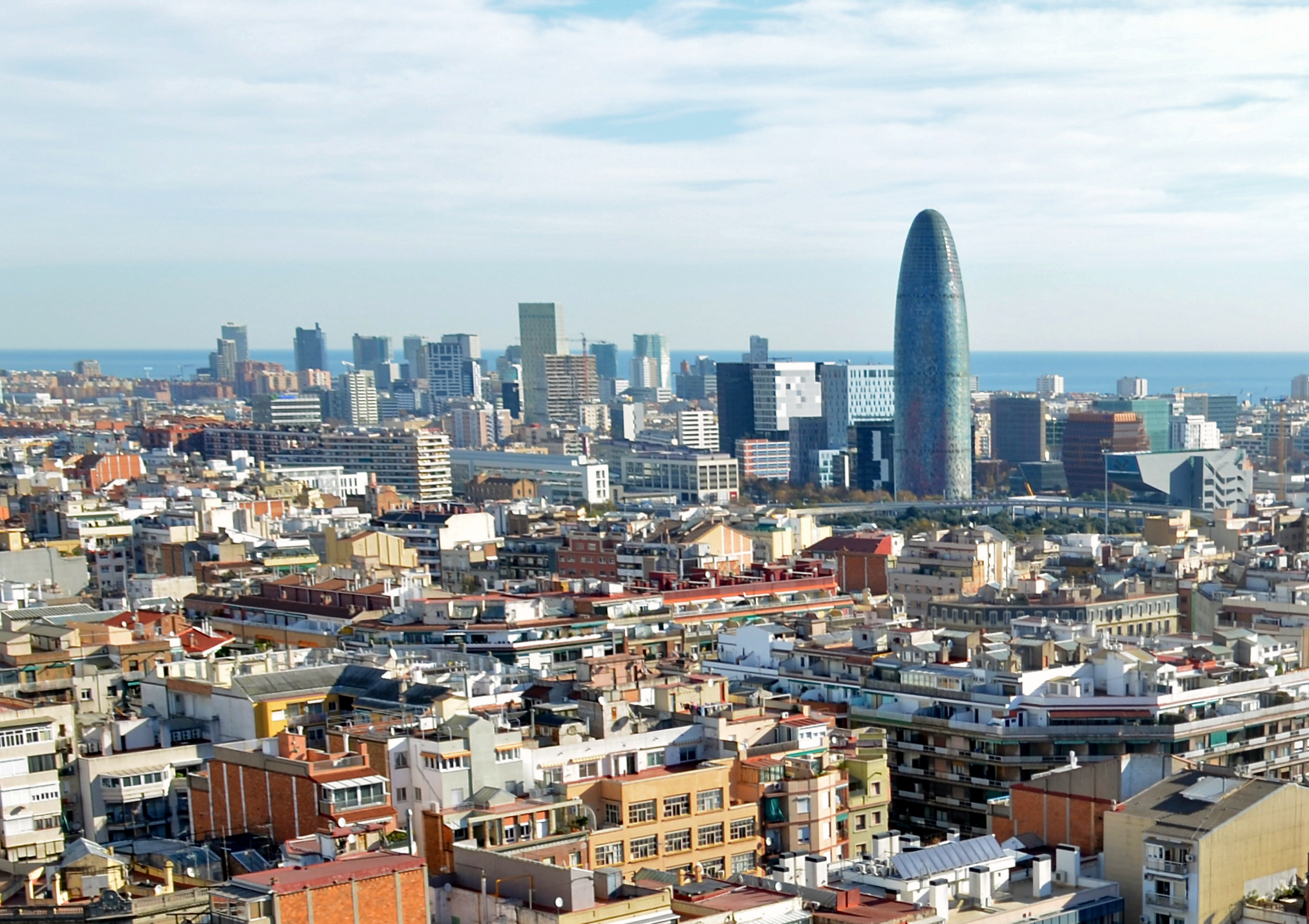 View on Barcelona from Sagrada Familia.